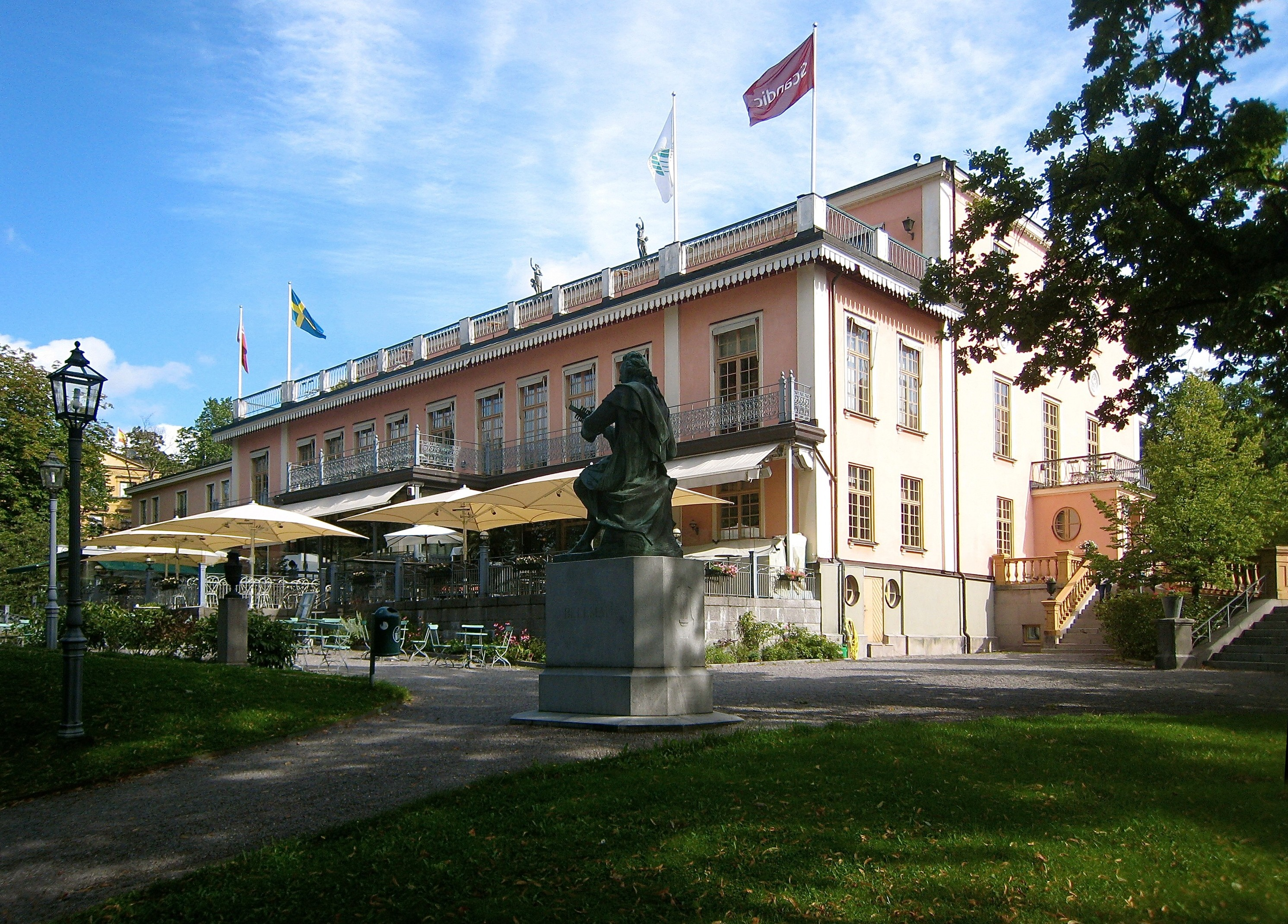 Hasselbacken